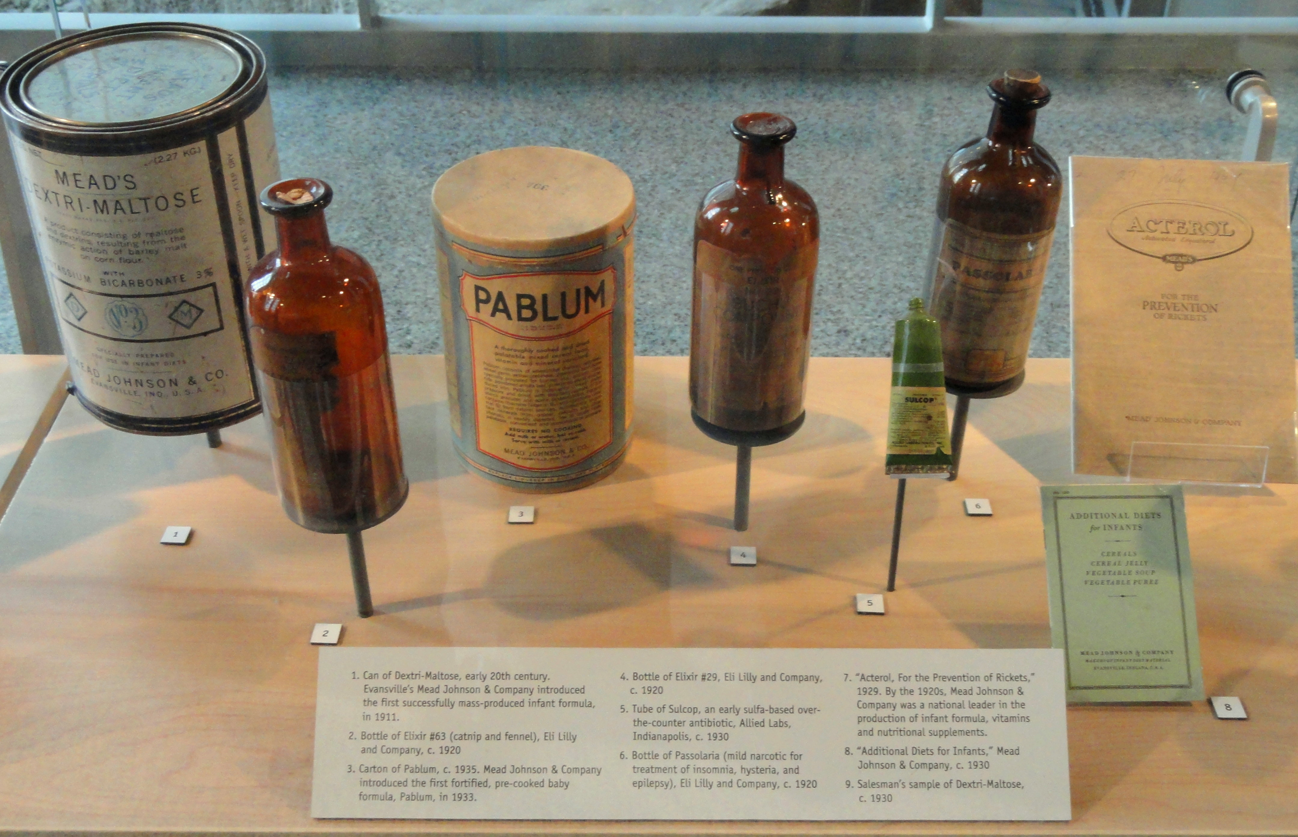 Early 20th century processed foods and drugs from Indiana, including products from Mead Johnson & Company and Eli Lilly. Indiana State Museum, 650 West Washington Street, Indianapolis, Indiana, USA.